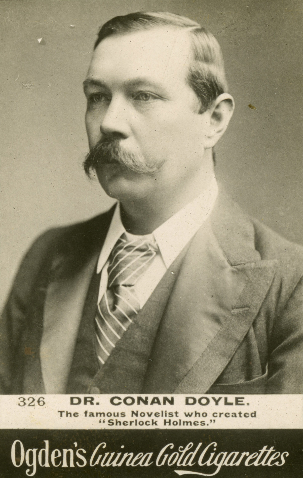 Title: Ogden's Guinea Gold Cigarettes No. 326: Dr. Conan Doyle Creator: Ogden's Tobacco Co. Date: 1899 Published: Liverpool: Ogden's Tobacco Co. Identifier: Cigarette card_ACD_1; N4_Cigarette card_1 Format: Cigarette card Rights: Public domain Courtesy: Toronto Public Library This image is available from the Toronto Public Library under the reference number Cigarette card_ACD_1; N4_Cigarette card_1 This tag does not indicate the copyright status of the attached work. A normal copyright tag is still required. See Commons:Licensing for more information. English | français | +/−